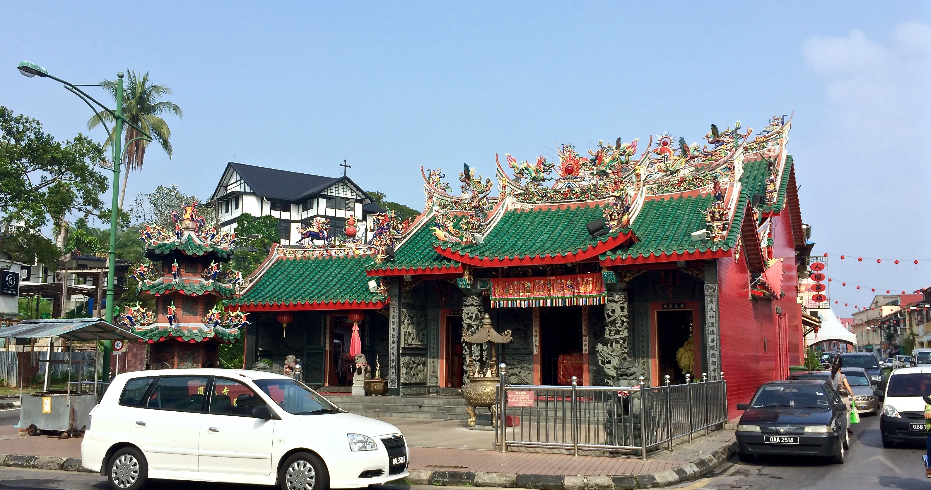 Front view of the Hong San Si Temple. To the right of the photo is the historic Carpenter Street. To the left in the background is the compound of the St. Thomas Cathedral where the Bishop's House is located.